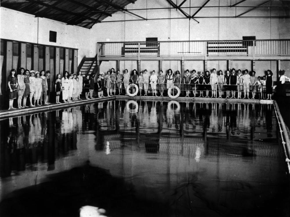 Spring Hill Baths, ca. 1910 This image depicts a large group of girls wearing swimming costumes and standing around the perimeter of the pool.